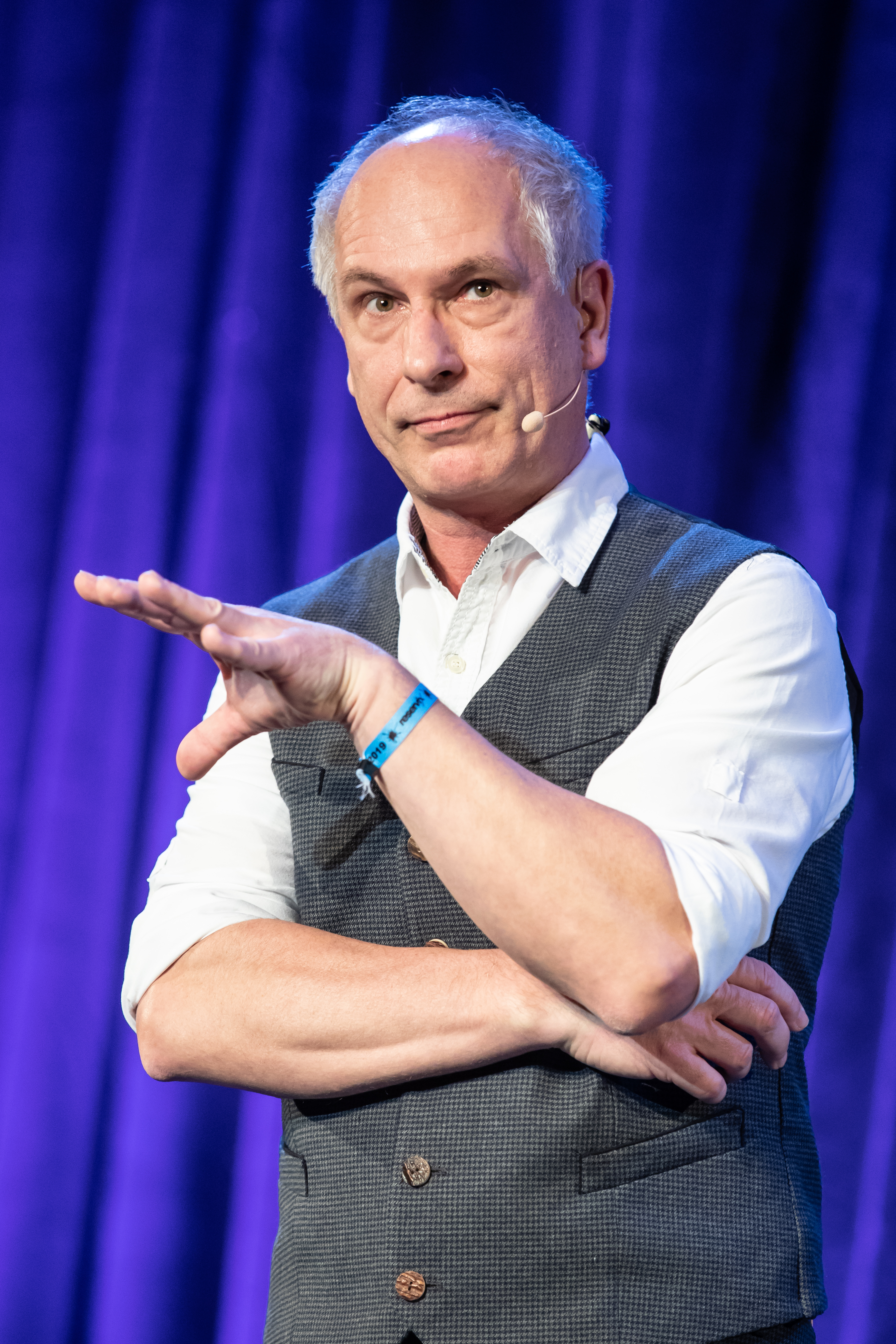 German kabarett artist Alfred Mittermeier at the Internationale Kulturbörse Freiburg 2019